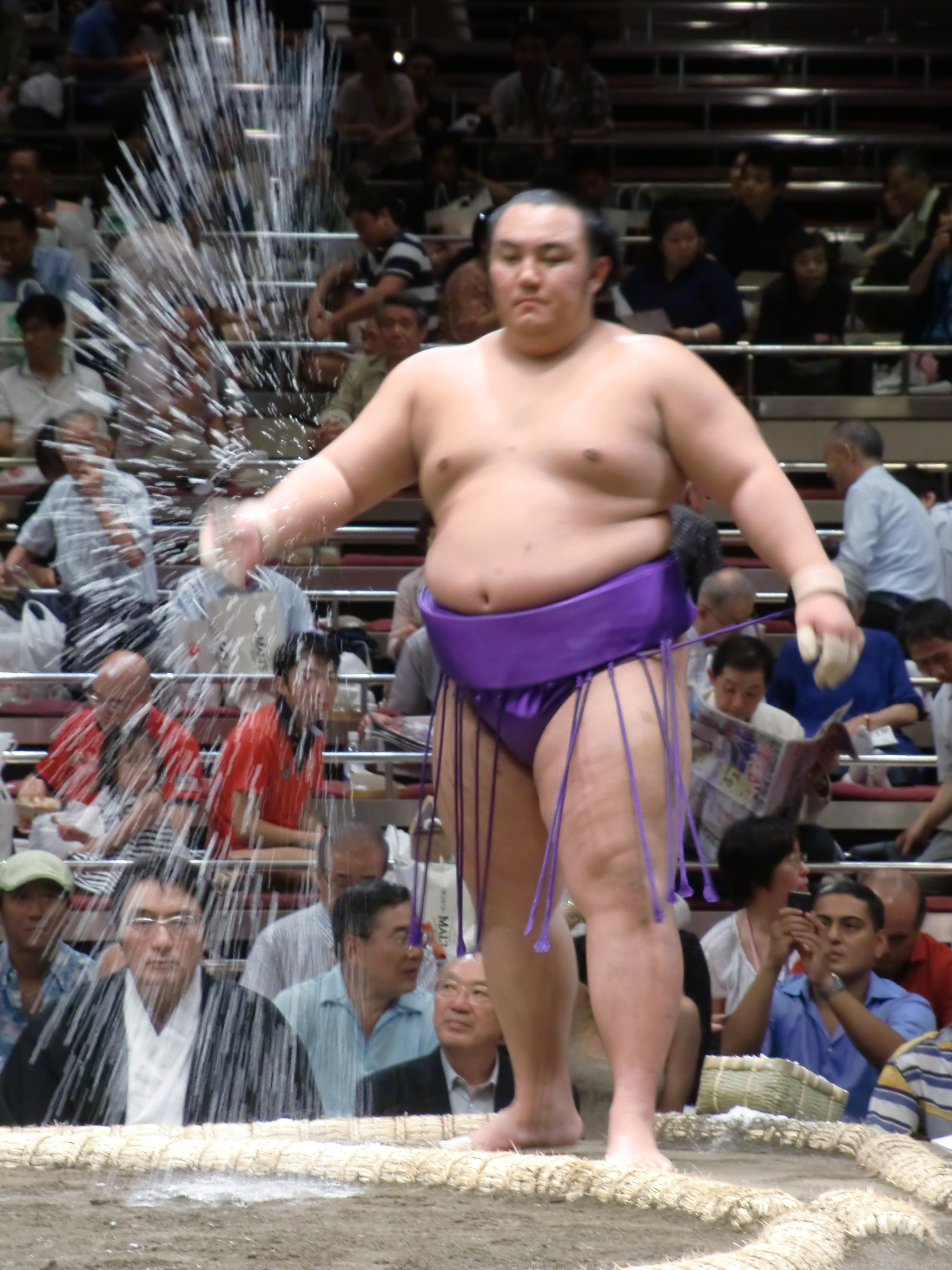 taken at 2011 Sep tournament